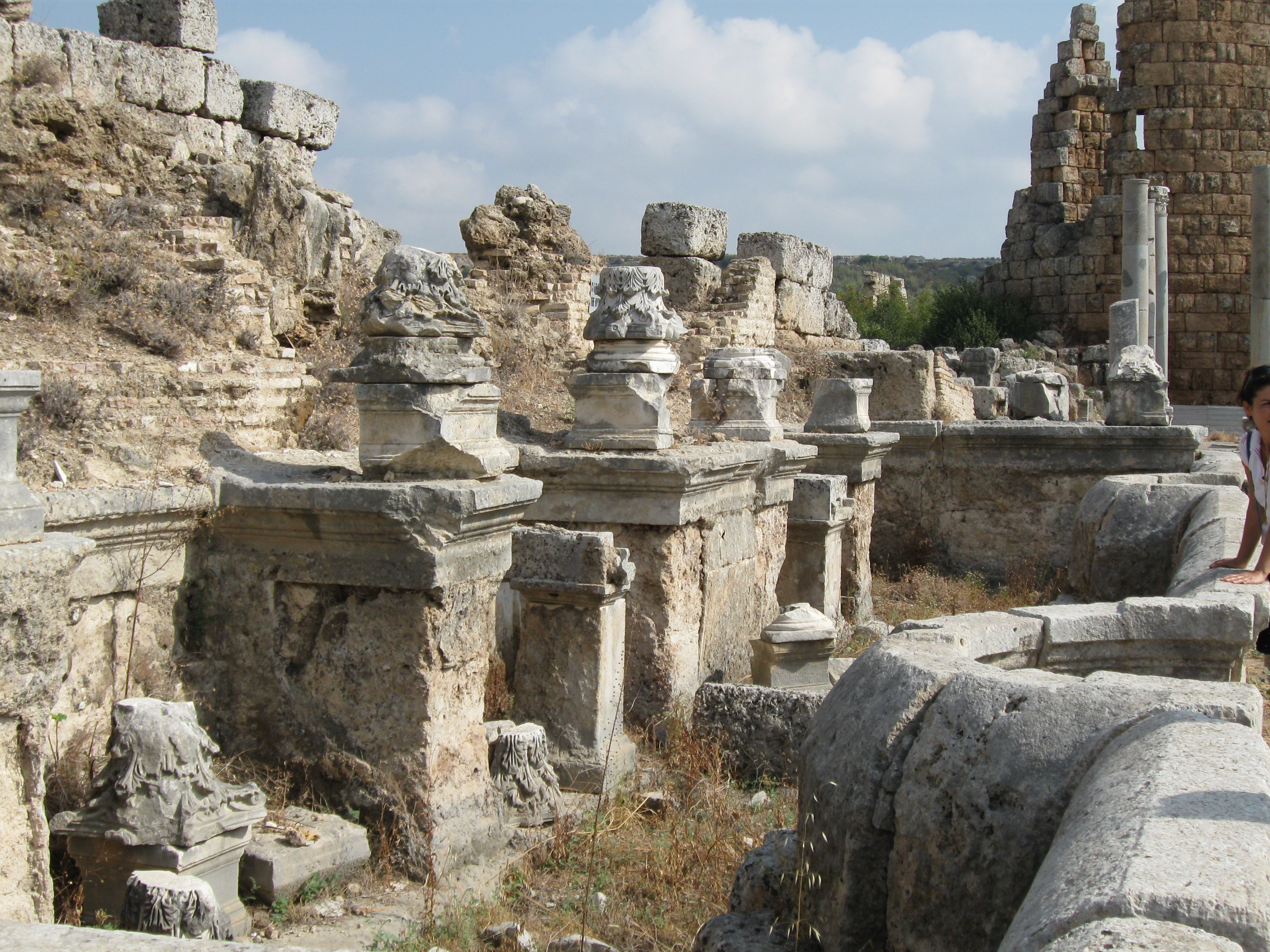 The fountain